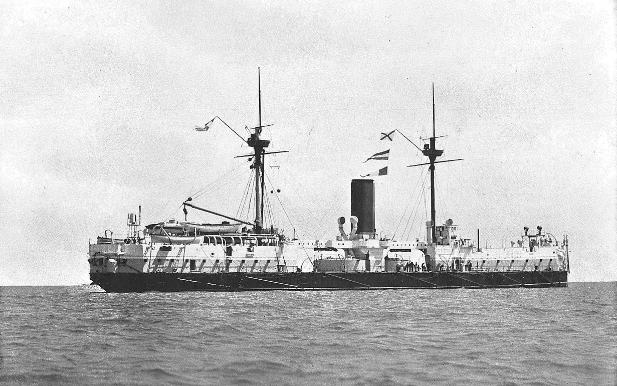 British battleship HMS Edinburgh of 1882.